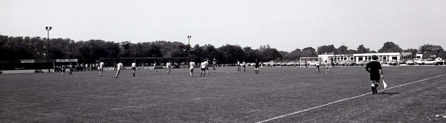 Cropped image of Alfredian Park in Wantage, Oxfordshire, taken in 1983